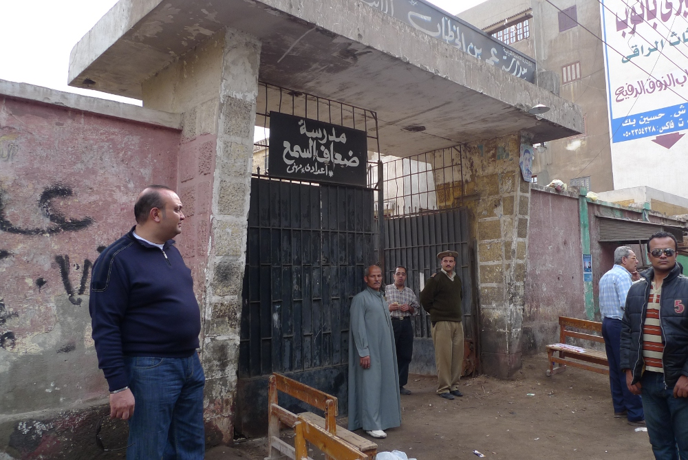 Police at this polling place in Mansoura told an Al Jazeera reporter that he was supposed to have a blue press badge, not a green one - a unique reason among the many that reporters were given for being denied entrance to polling stations on election day. [Evan Hill]